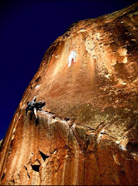 A climber in Penitente Canyon, CO.